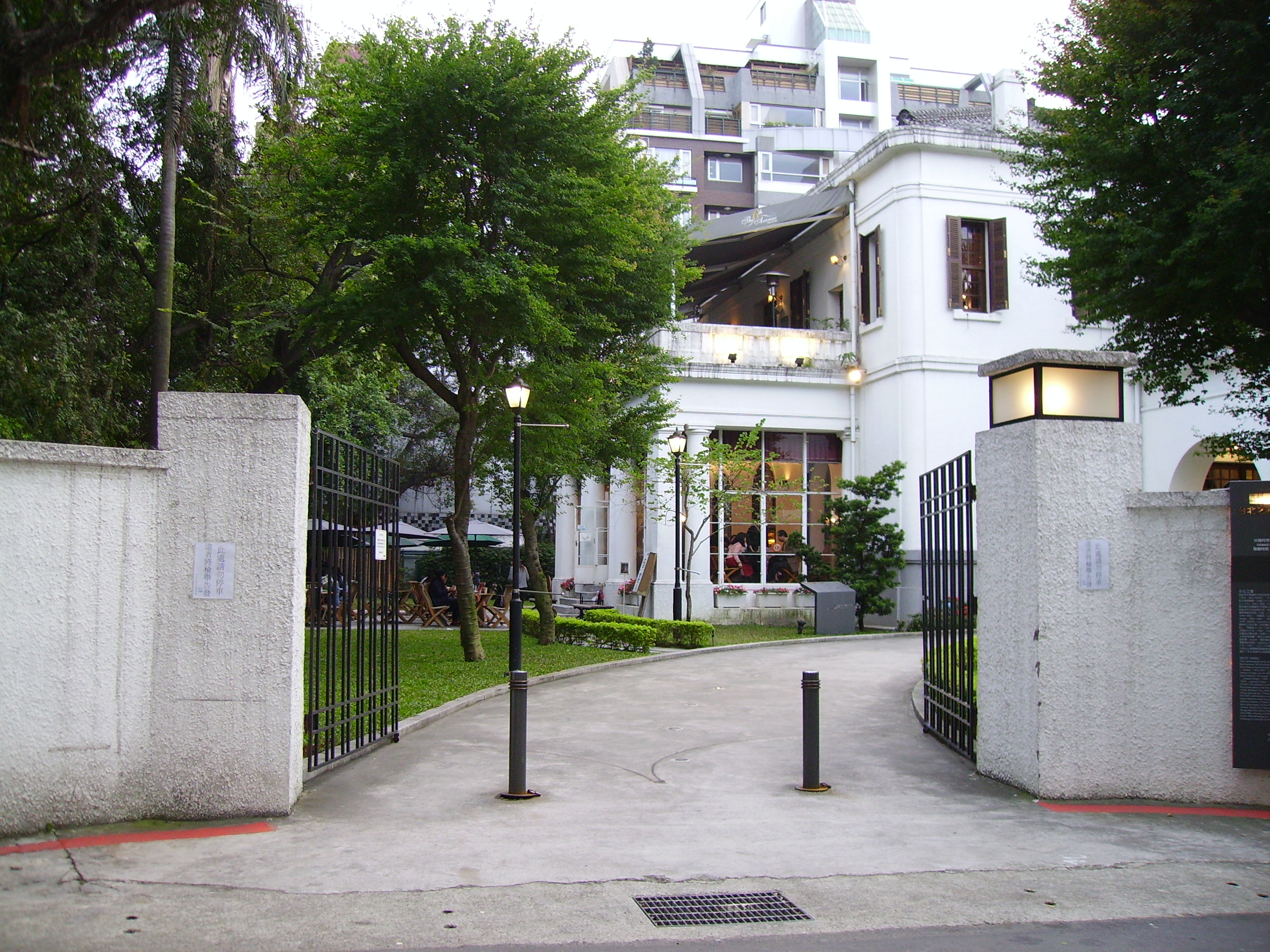 70' AMERICAN CONSULATE IN TAIPEI PHOTO BY WINERTAI 2006.03